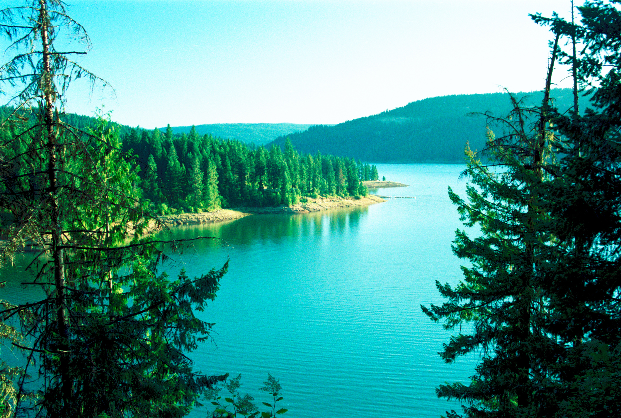 detail of Dworshak Reservoir